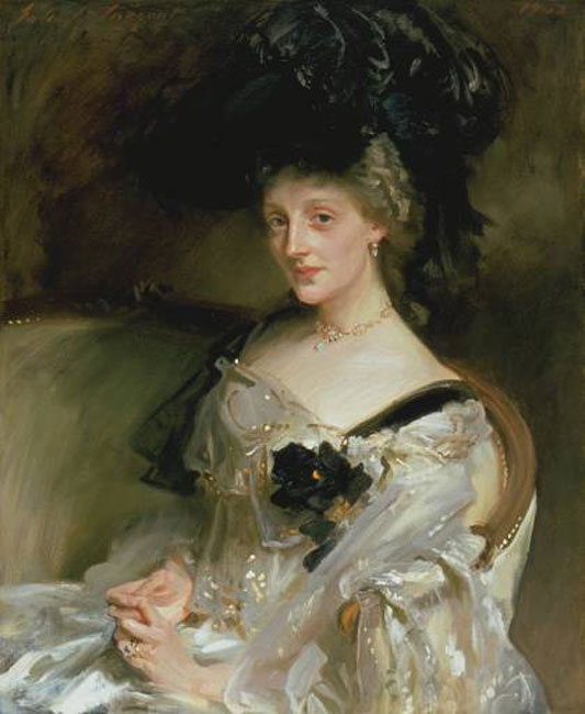 Mrs Philip Leslie Agnew John Singer Sargent -- American painter 1902 Tate Gallery, London Oil on canvas 90.8 x 74.3 cm Bequeathed by Mrs Philip Leslie Agnew 1957 Jpg: Tate Gallery